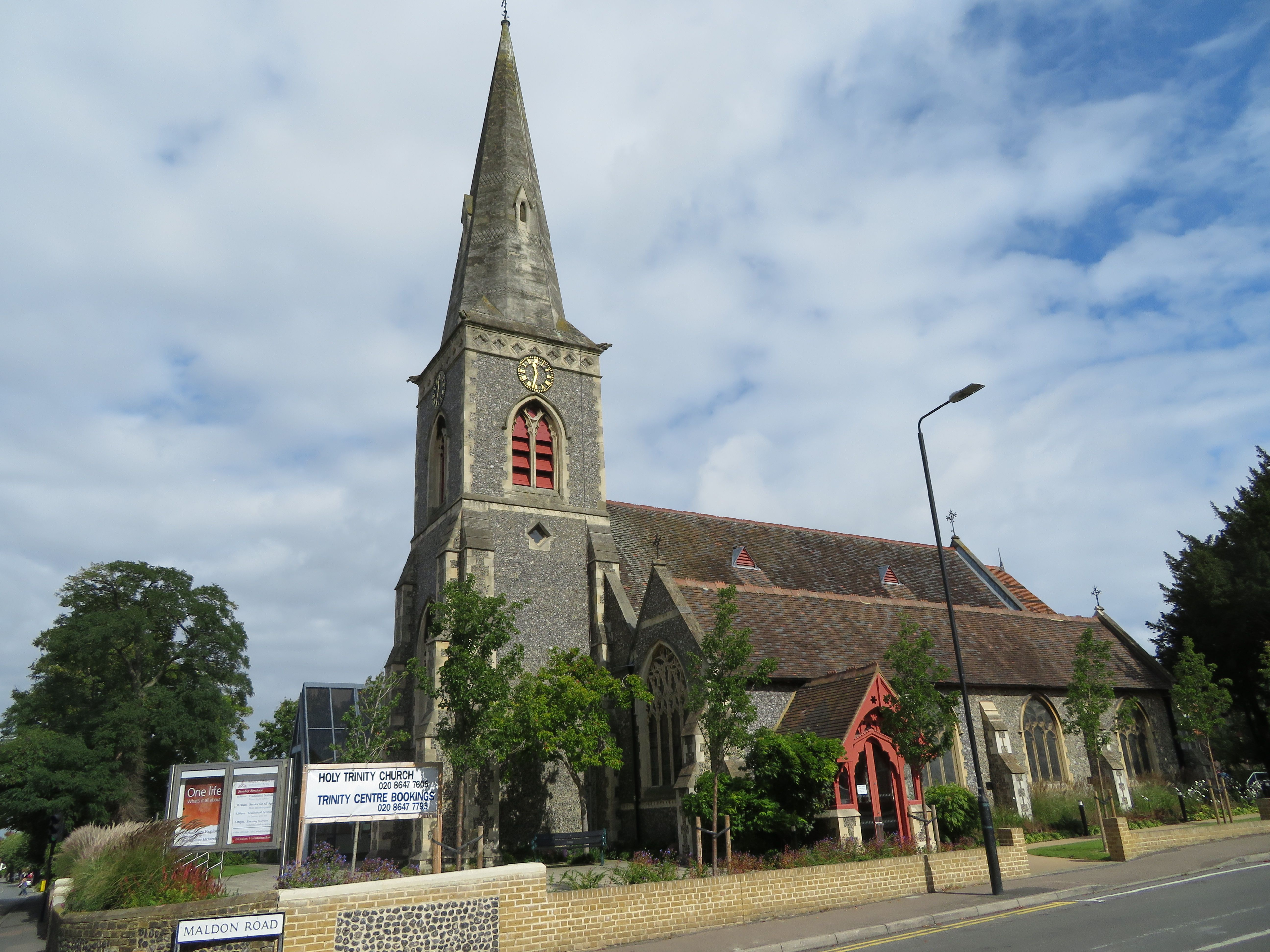 Church Of The Holy Trinity Wikidata has entry Q26640090 with data related to this item.